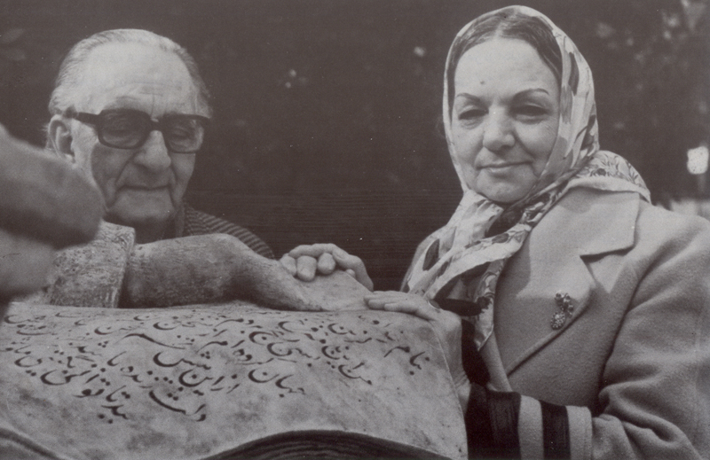 this is considered in public domain now because its copyright condition has been already expired in Iran. according to the "National law in support of authors, composers and artists" ratified in 01/01/1970 and published in 01/02/1970, the license for photographs and films after their issuing date is valid for 30 years.